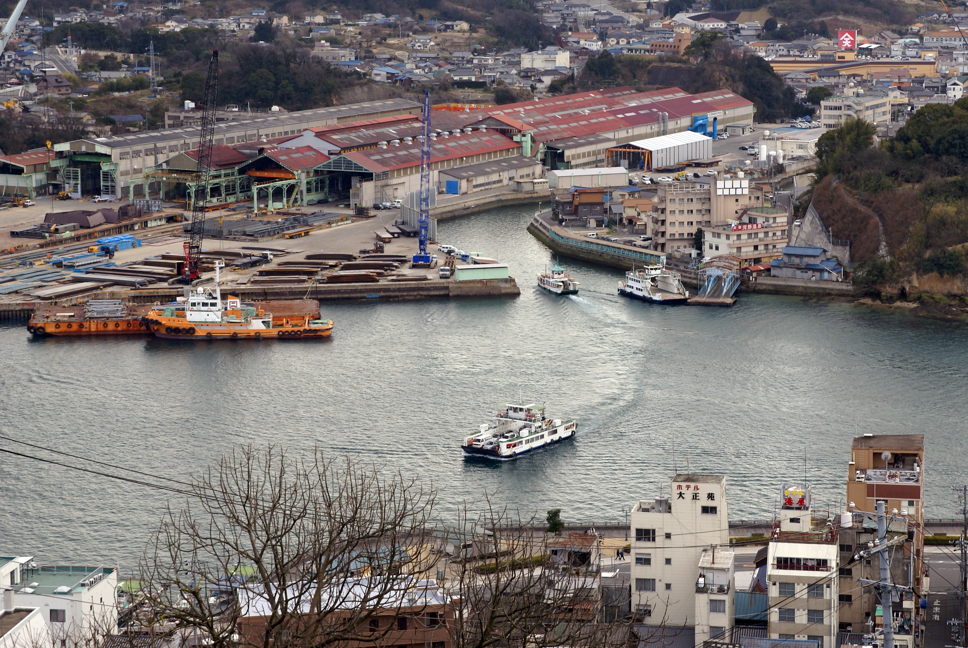 Onomichi Channel in Onomichi, Hiroshima prefecture, Japan